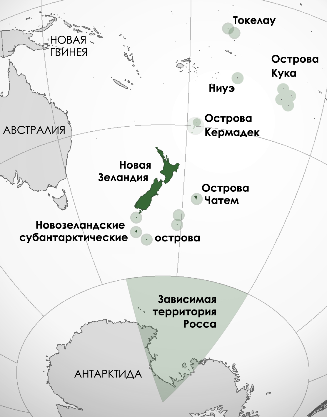 Realm of New Zealand. A cropped map of the hemisphere centred on Wellington, New Zealand, using an orthographic projection.